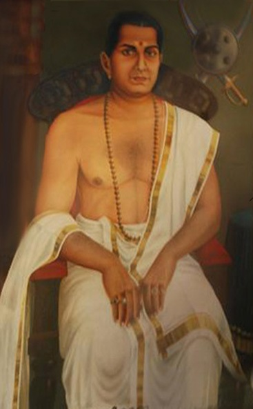 Kerala Varma Pazhassi Raja, the ruler of Kottayam Kingdom, Near Thalassery, Kerala. The leader foremost people uprising against the British in India.